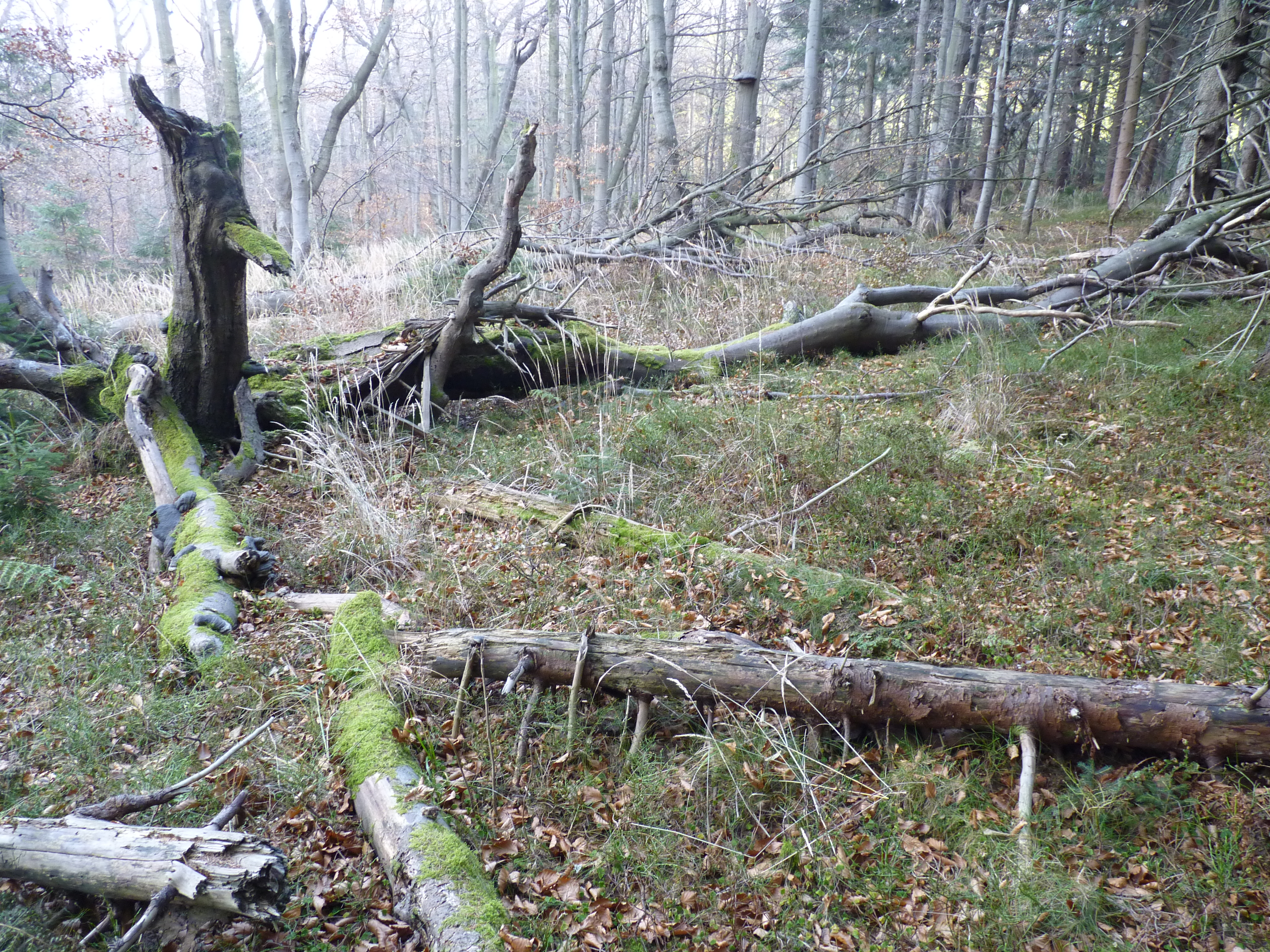 Nature reserve Čerňavina in Moravian-Silesian Beskids. Frýdek-Místek District, Moravian-Silesian Region, Czech Republic